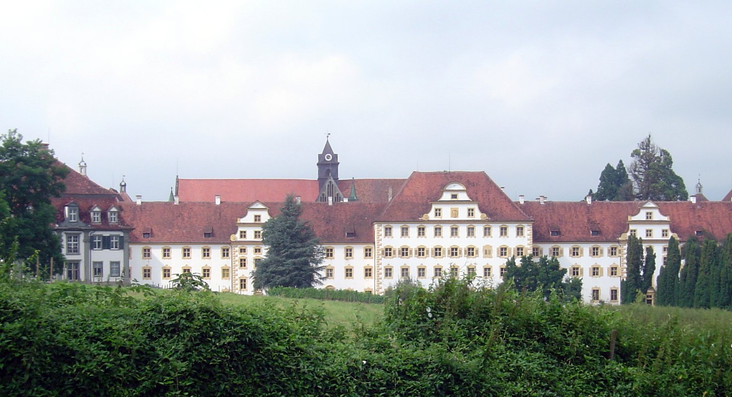 Monastery of Salem, seen from South. Photography: F. Bucher